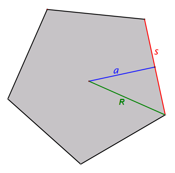 Relevant parameters of a pentagon